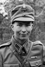 Veikko Vehviläinen, Knight of the Mannerheim Cross #15